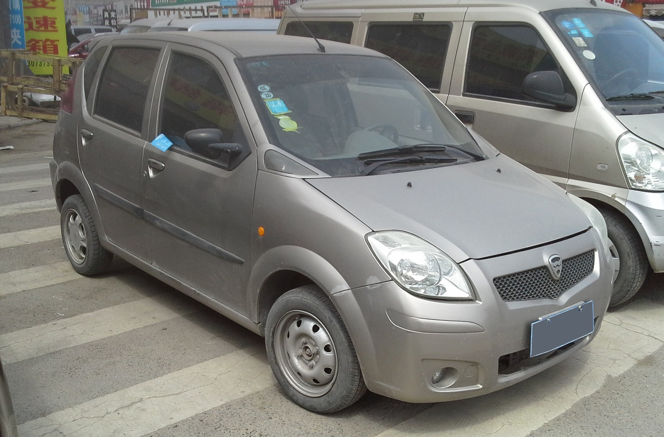 Hafei Lobo facelift II photographed in Zhengzhou, Henan province, China.